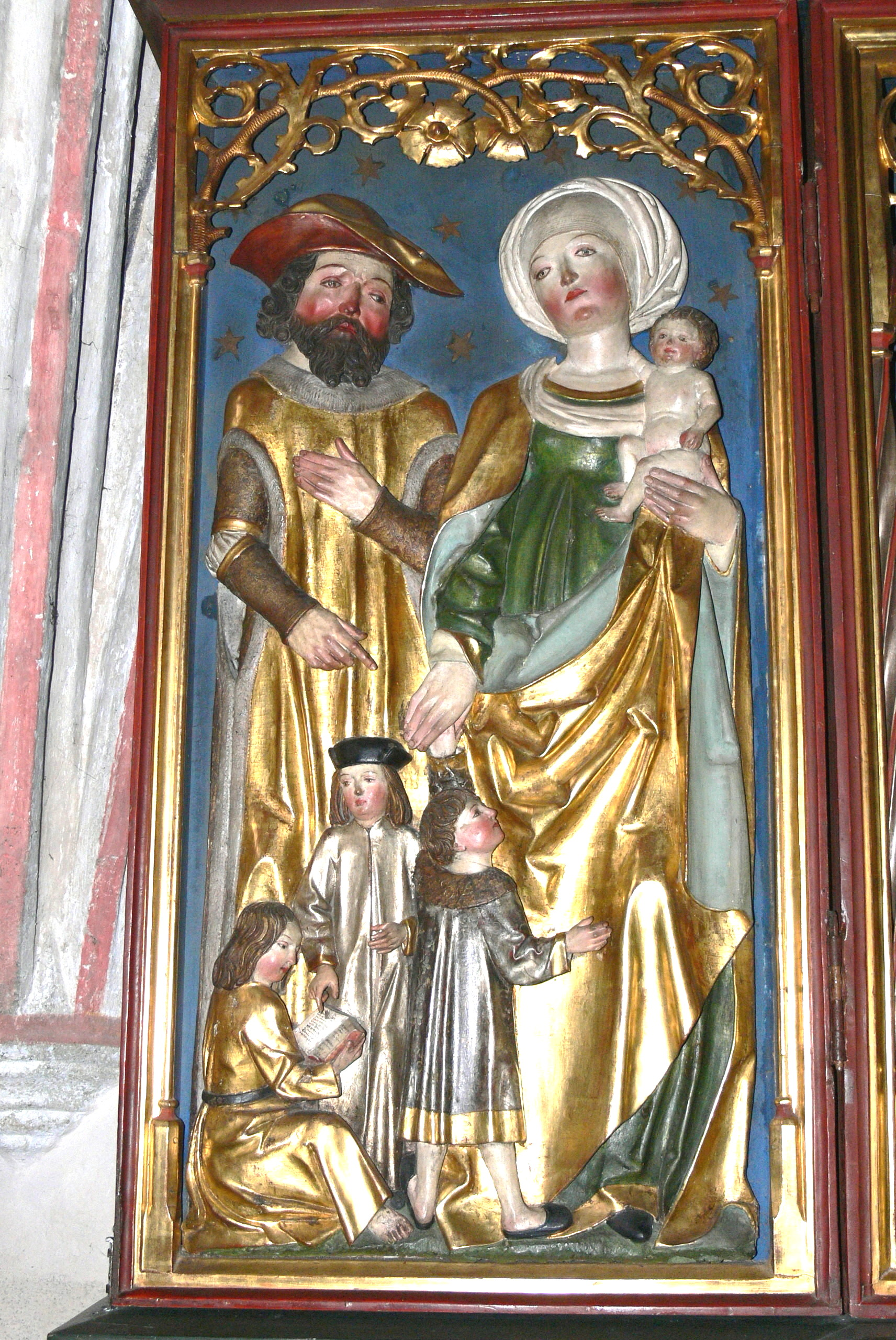 Langenzenn ( Bavaria / Frankonia ). City church - Altar of the Holy Kinship ( 1508 ). Alphaeus and his wife Maria Cleophae with their children Saint James the Less, Joseph, Simon Zelotes and Judas Thaddaeus.